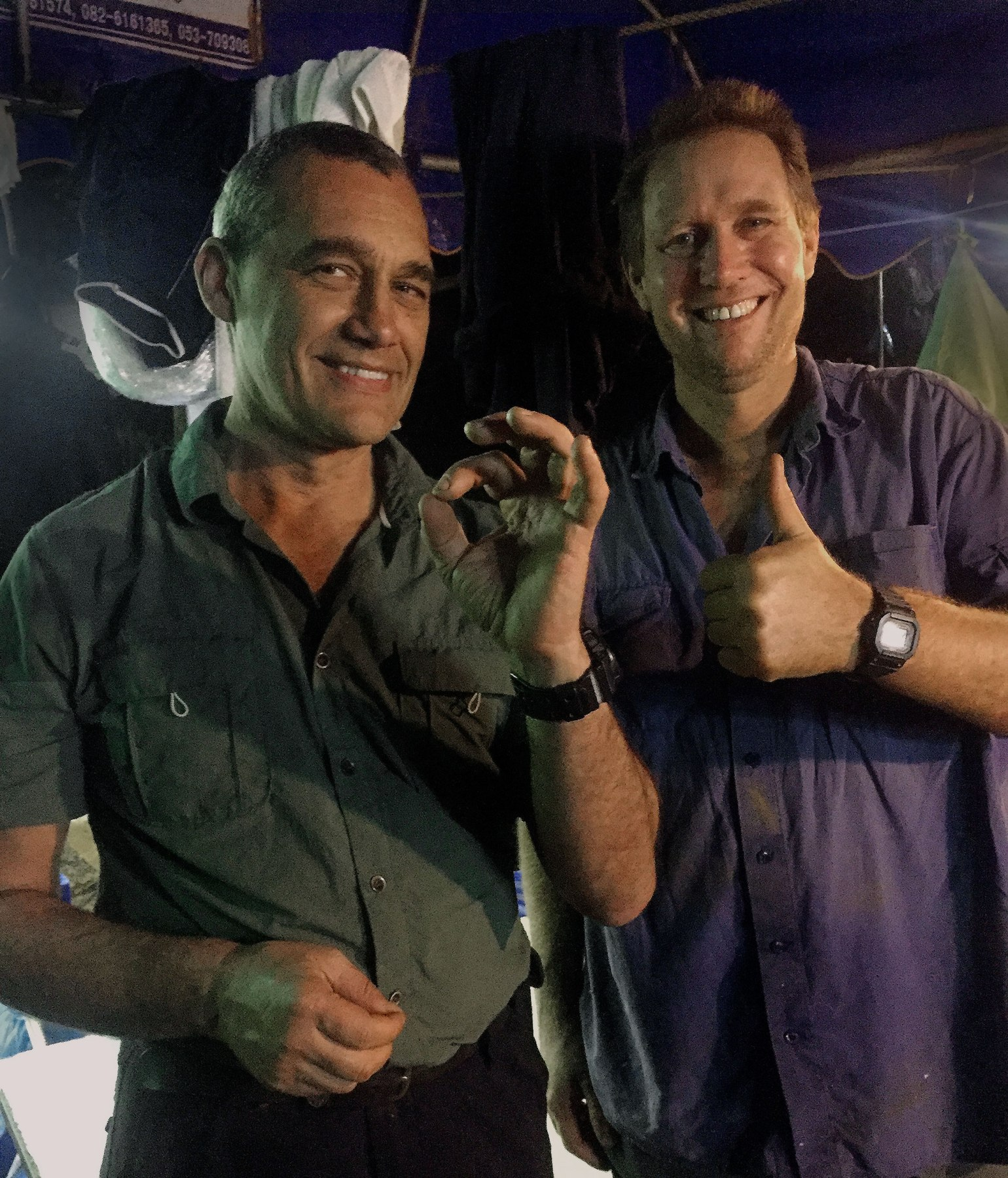 Australian doctor Richard Harris (right), along with his dive partner Craig Challen (left) after the successful Tham Luang cave rescue